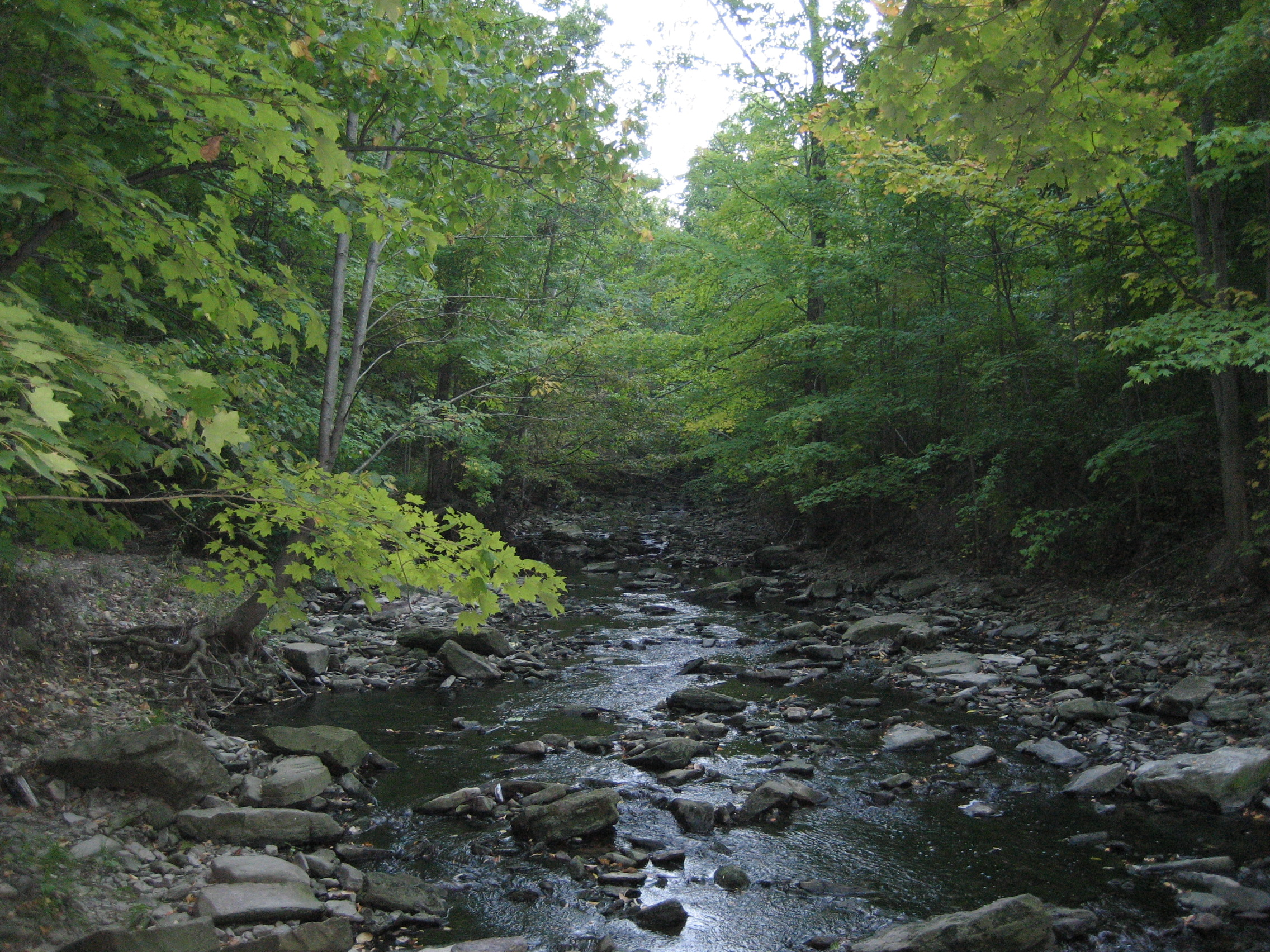 Red Hill Creek, King's Forest Park, looking South, Hamilton